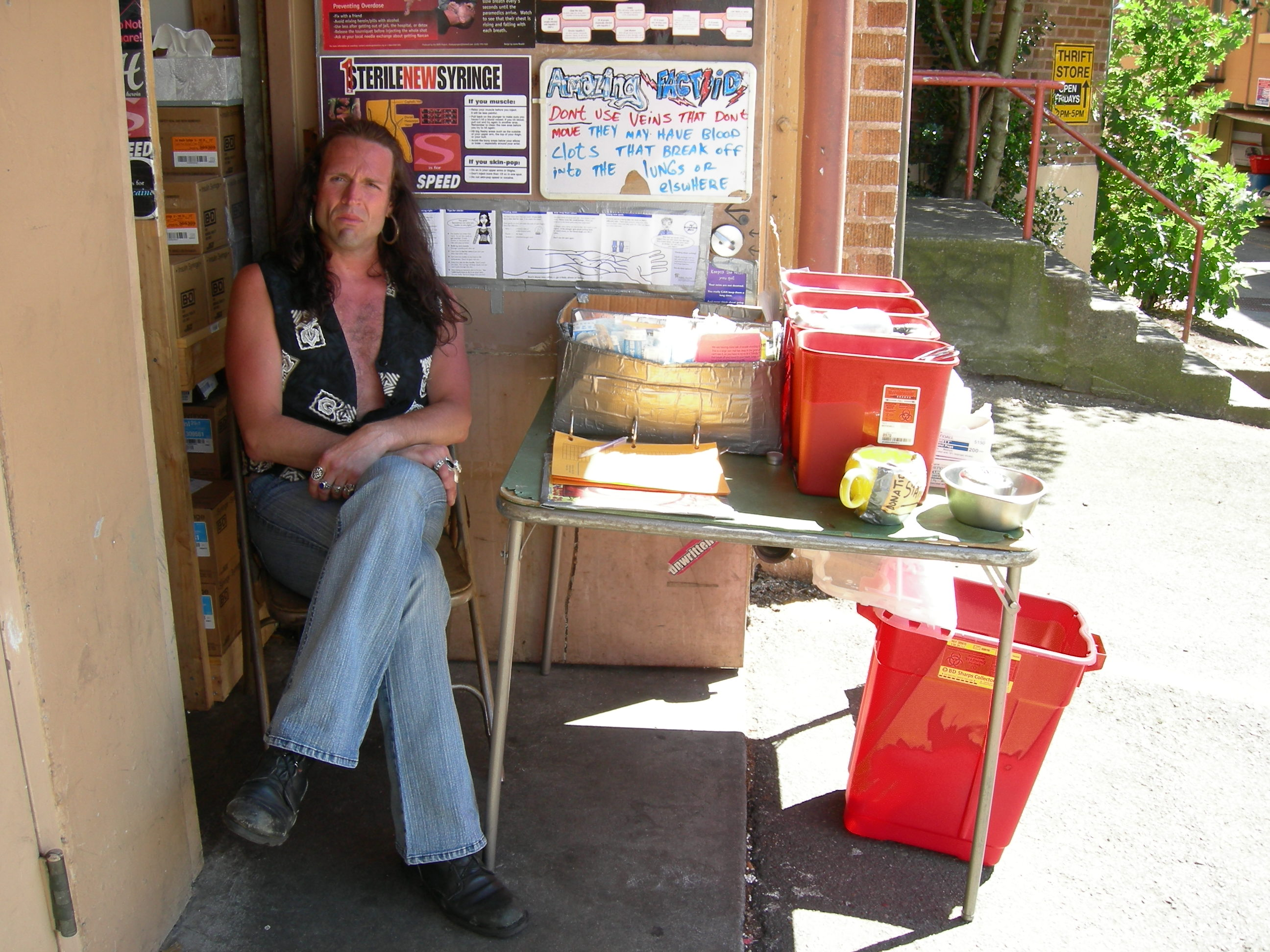 Street Outreach Services needle exchange, on the alley, in back of University Methodist Temple, University District, Seattle, Washington.